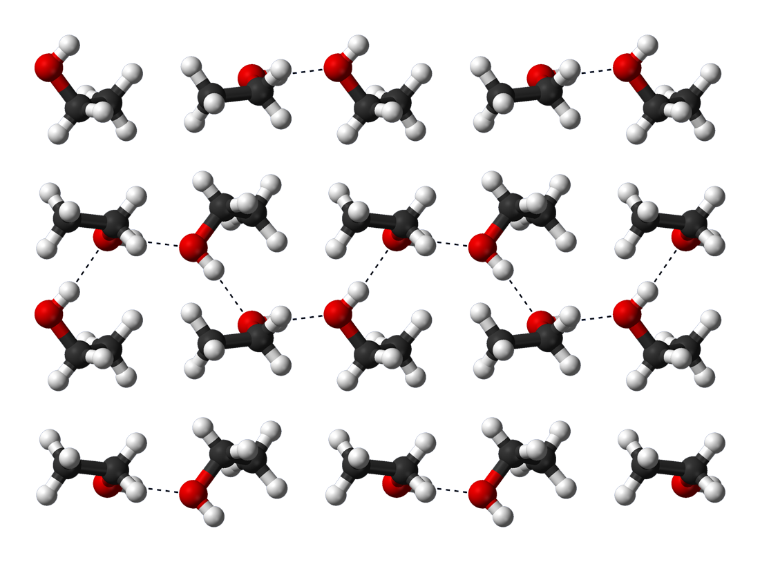 Ball-and-stick model of part of the crystal structure of ethanol at 87 K (−186 °C). X-ray crystallographic data from Acta Cryst. (1976). B32, 232-235. Model constructed in CrystalMaker 8.1. Image generated in Accelrys DS Visualizer.